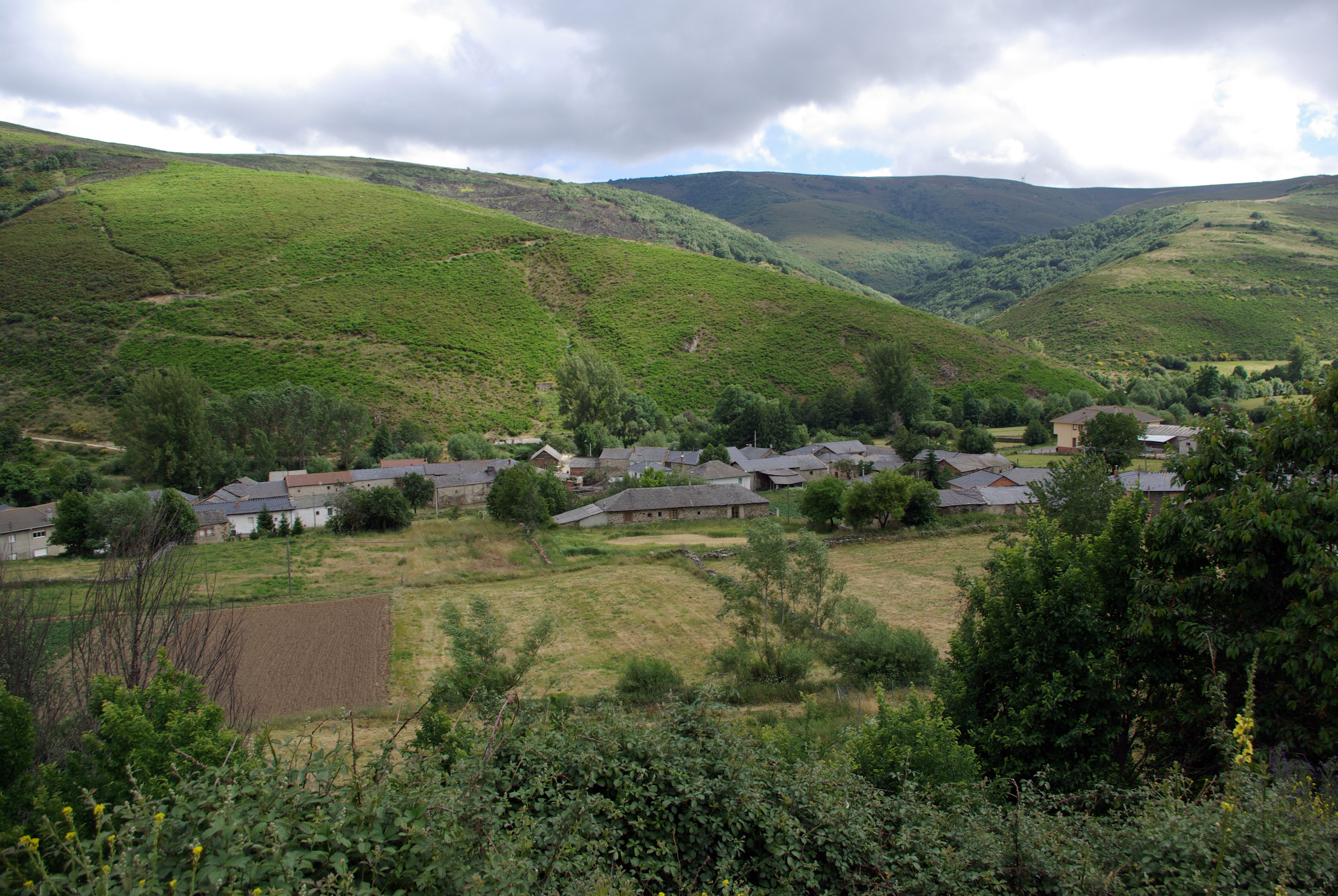 Cirujales (Riello, León, Spain)